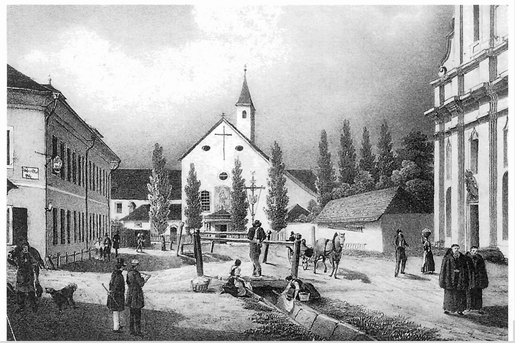 Historical drawing of the Kapuziner church in the Waaggasse, at the beginning of the Bahnhofstrasse with the "fire brook", Klagenfurt, Carinthia, Austria